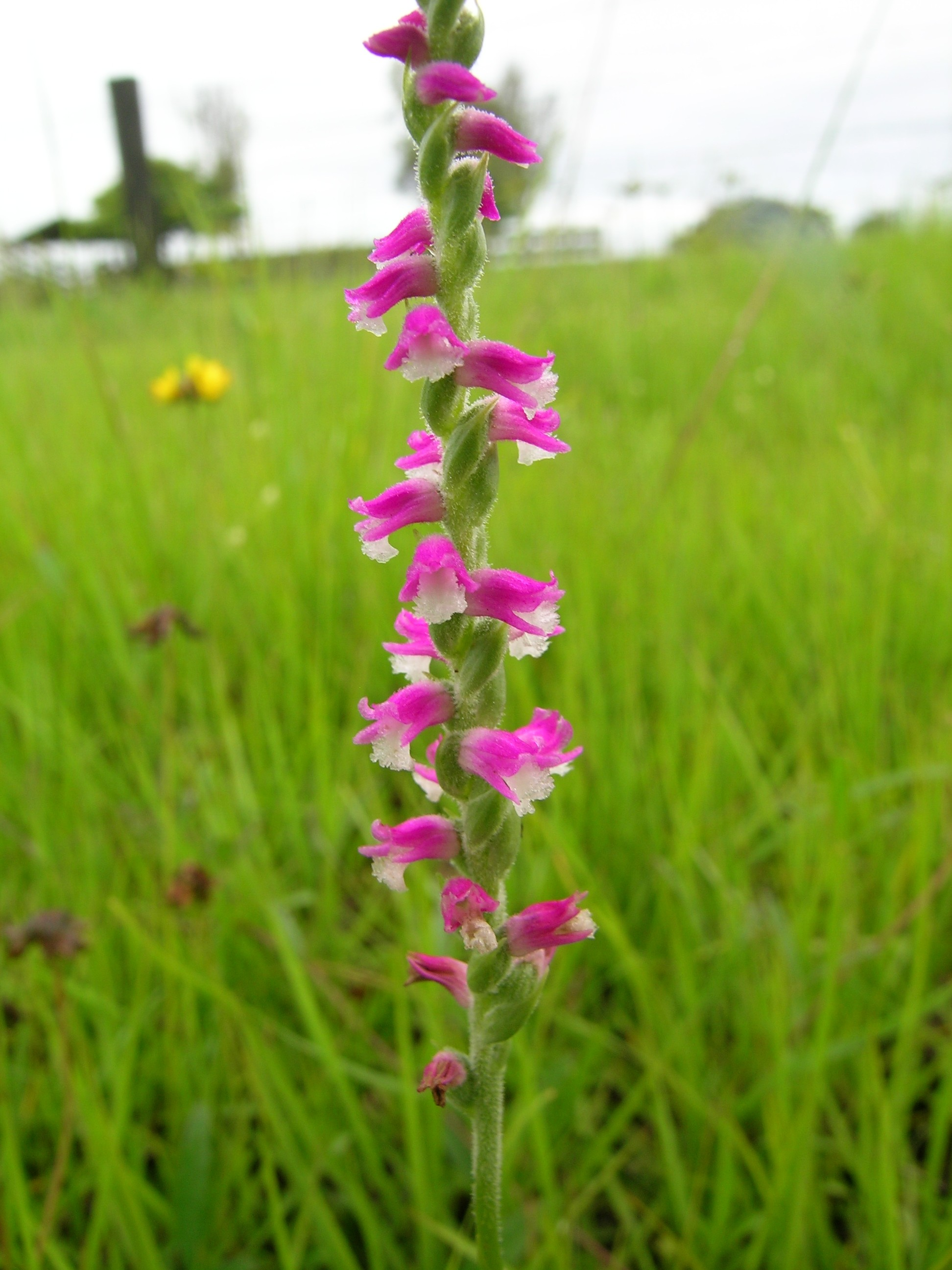 Native, warm season, perennial, slender terrestrial herb to 50 cm tall. Leaves number 3–10, and are basal, narrow- to broad-linear, 4–10 cm long, passing into 2 or 3 stem bracts. Flowers are bright pink in a dense spiral spike. Perianth segments are 4–5 mm long. The labellum is mostly white. Flowering is mostly from late spring to early autumn. Usually grows in marshy or boggy places.